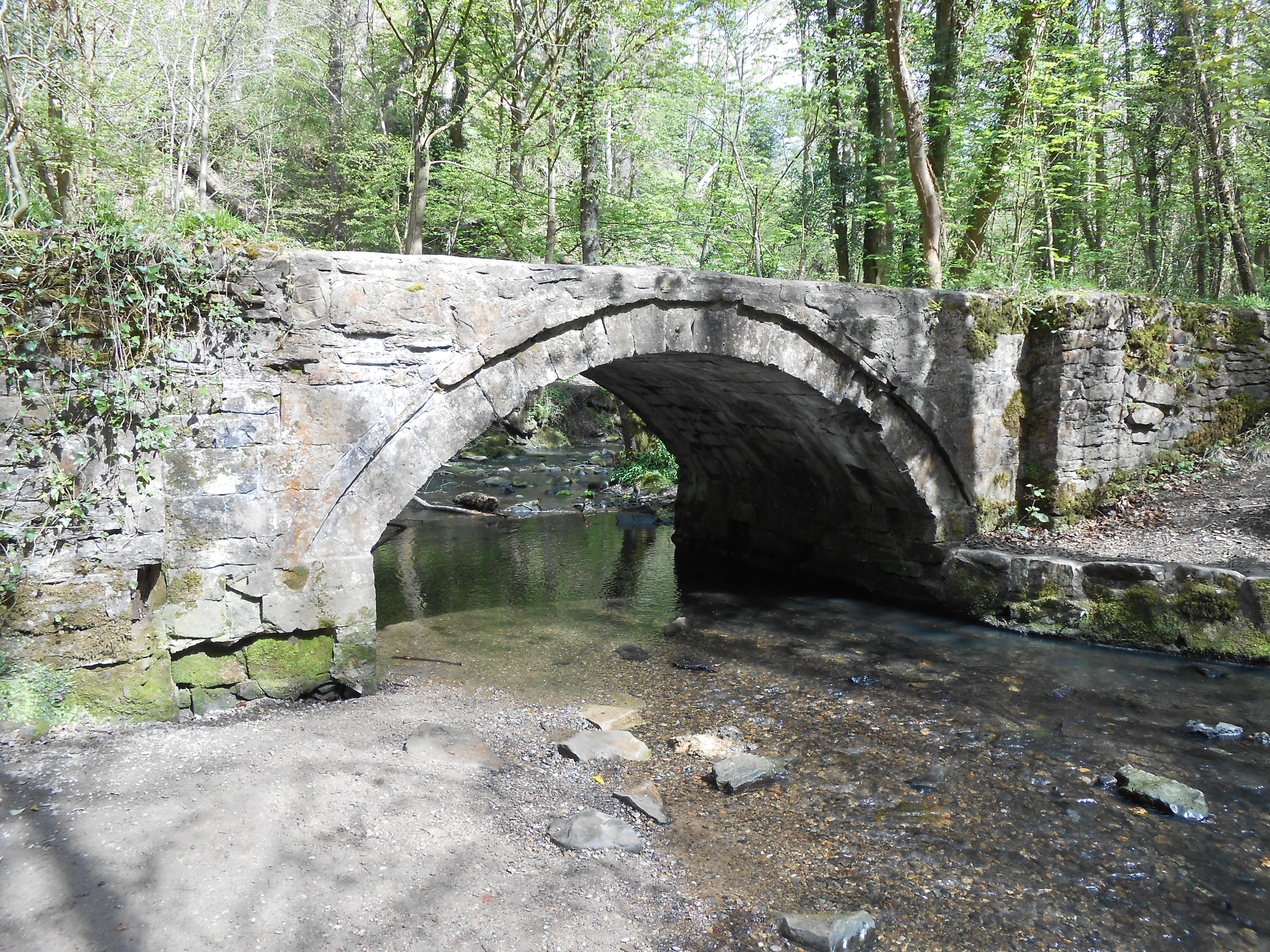 Bridge over Wepre Brook in Wepre Park, Flintshire, Wales.